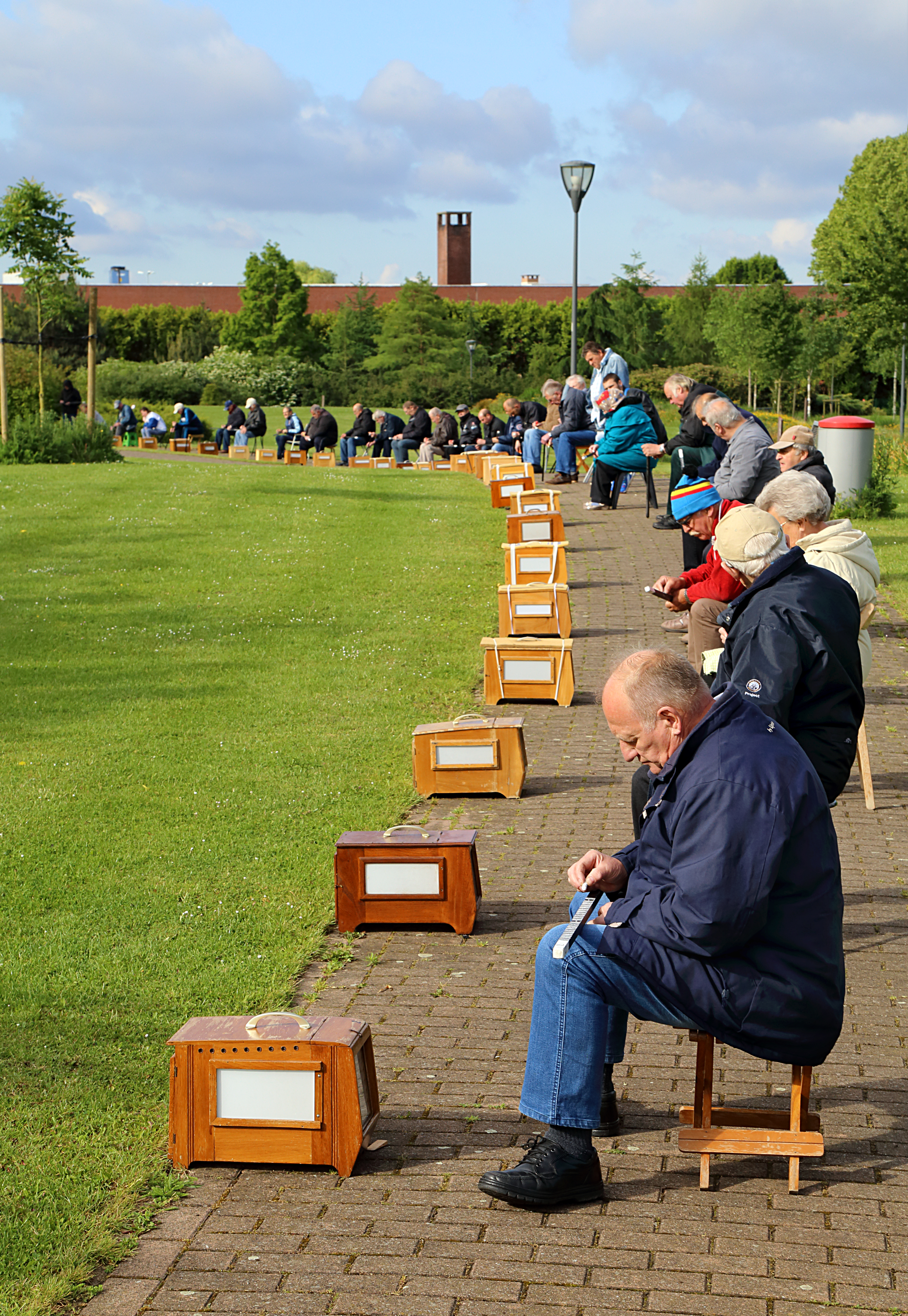 People who takes part in finch competitions and their cages. Picture taken in the municipal park of Mouscron, Belgium.